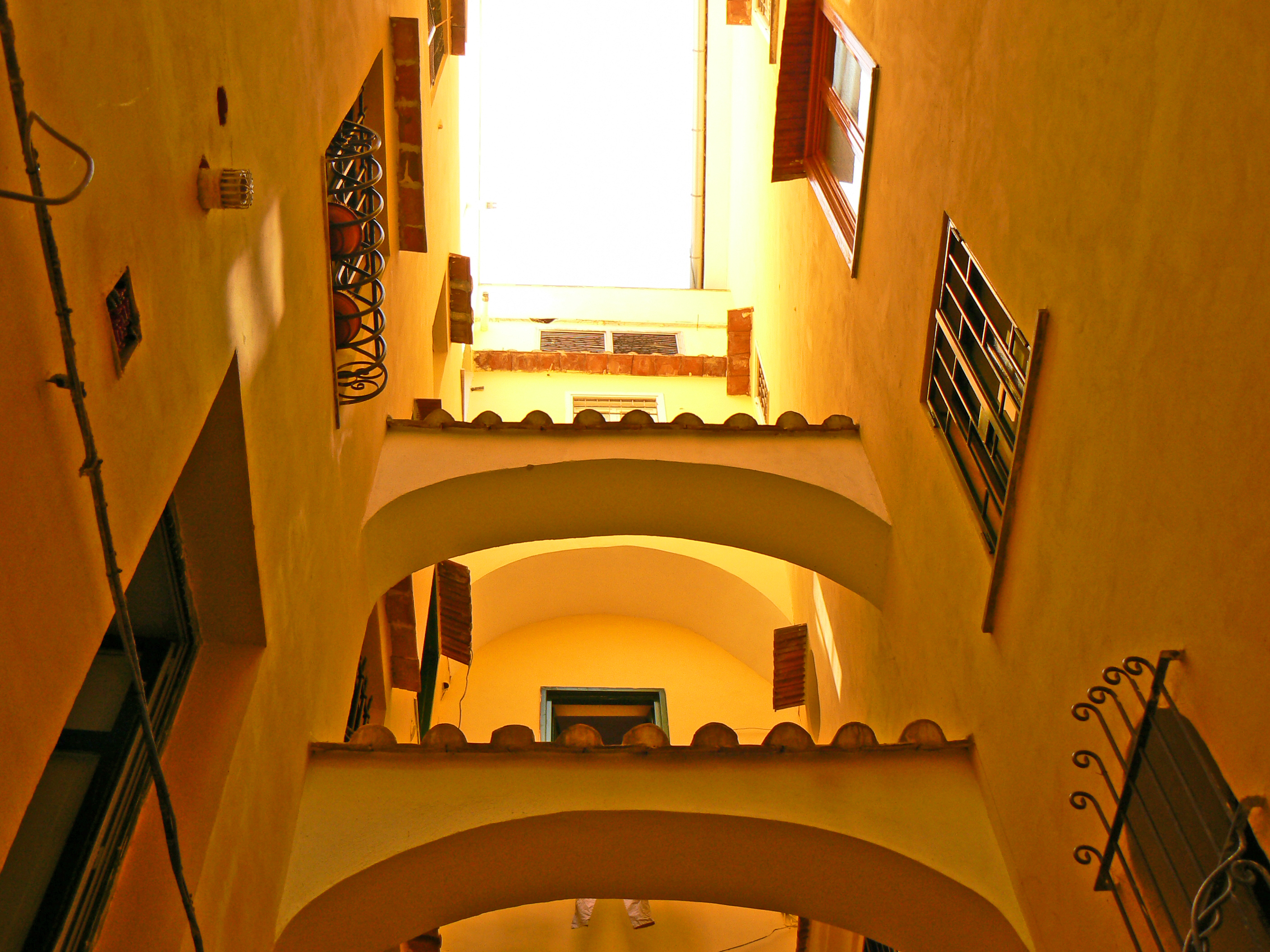 Old town in Salerno, Italy